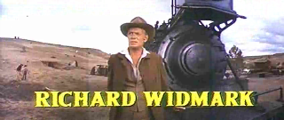 Cropped screenshot of the film How the West Was Won